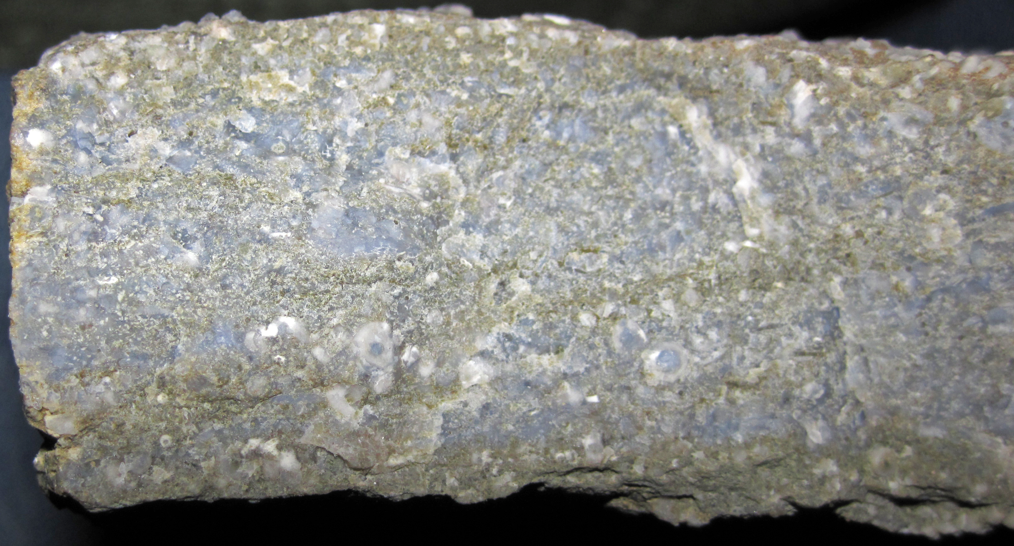 Chertified fossiliferous limestone from the Mississippian of Kentucky, USA. (cross-section view) The Ft. Payne Formation of southern Kentucky is richly fossiliferous and is dominated by crinoids. Crinoids ("sea lilies") are sessile, benthic, filter-feeding, marine invertebrates that were abundant in Paleozoic oceans. The group nearly went extinct at the Permian-Triassic mass extinction 251 million years ago. Crinoids are not common in modern oceans - they are usually deep-water forms now, but some shallow-water forms also exist today. A crinoid is essentially a starfish on a stick. The stick, or stem, lifts the organism to a moderately high tier above the seafloor, which is conducive to non-competitive filter feeding. The flower-like "head" of the crinoid consists of numerous cemented calcite plates that surround the digestive system and other soft parts. The arms are feather-like and are the structures that engage in filter-feeding. In the fossil record, crinoid stems are common, whereas crinoid heads are uncommon to rare, because they disaggregate quickly after death. Individual pieces of a crinoid stem are called columnals - they are usually somewhat shaped like poker chips. Each columnal is composed of a single crystal of calcite (CaCO3 - calcium carbonate). The fossiliferous limestone shown above is dominated by crinoid stem columnals. Such crinoid-rich limestones are called "encrinites". The slightly bluish-gray material is chert - the original limestone has been mostly chertified. Classification: Animalia, Echinodermata, Crinoidea Stratigraphy: packstone buildup in the Ft. Payne Formation, Osagean Stage, upper Lower Mississippian Locality: Cave Springs South Outcrop - lakeside outcrop, north-central Lake Cumberland, just south of the intersection of the Wolf Creek/Caney Creek arm of Lake Cumberland with Lake Cumberland proper, Russell County, southern Kentucky, USA (vicinity of 36° 56' 26.59" North latitude, 85° 00' 25.44" West longitude) See info. at